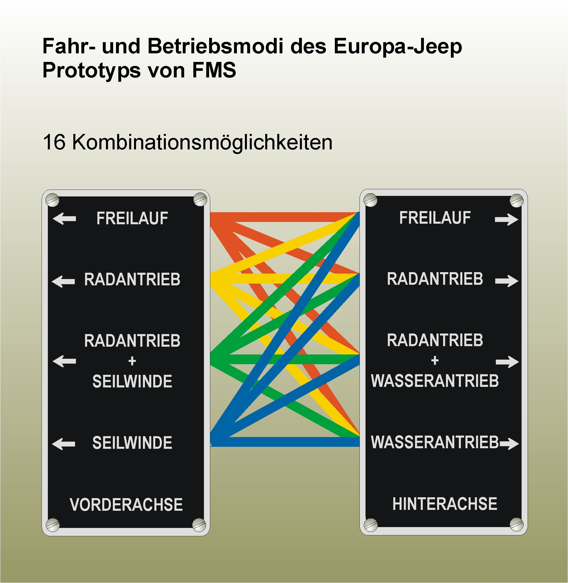 Handling an driving modes of an Europa-Jeep type FMS